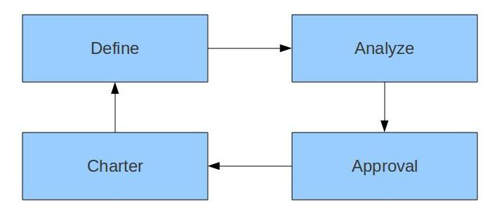 ITIL service stages